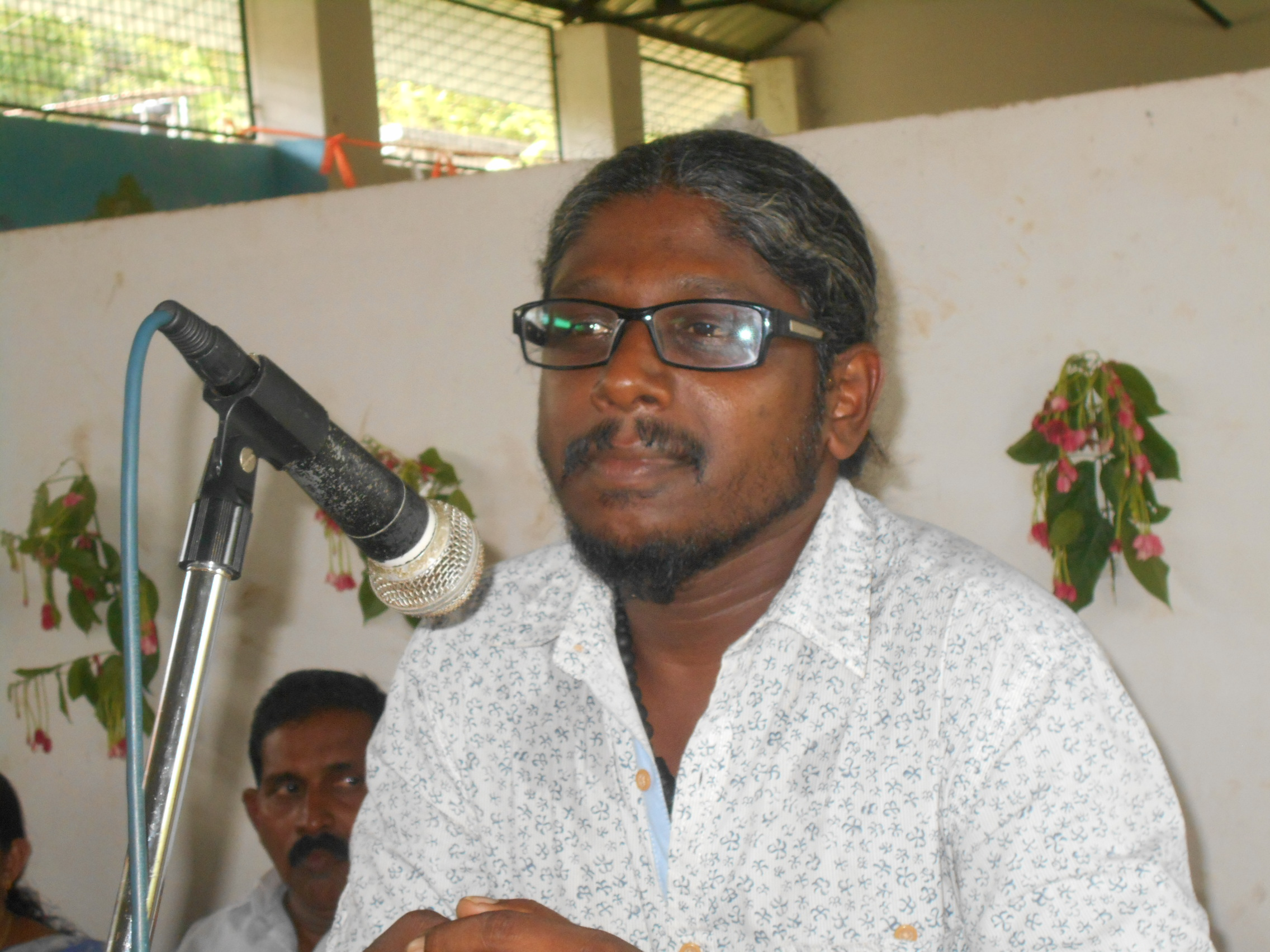 film singer fom kerala